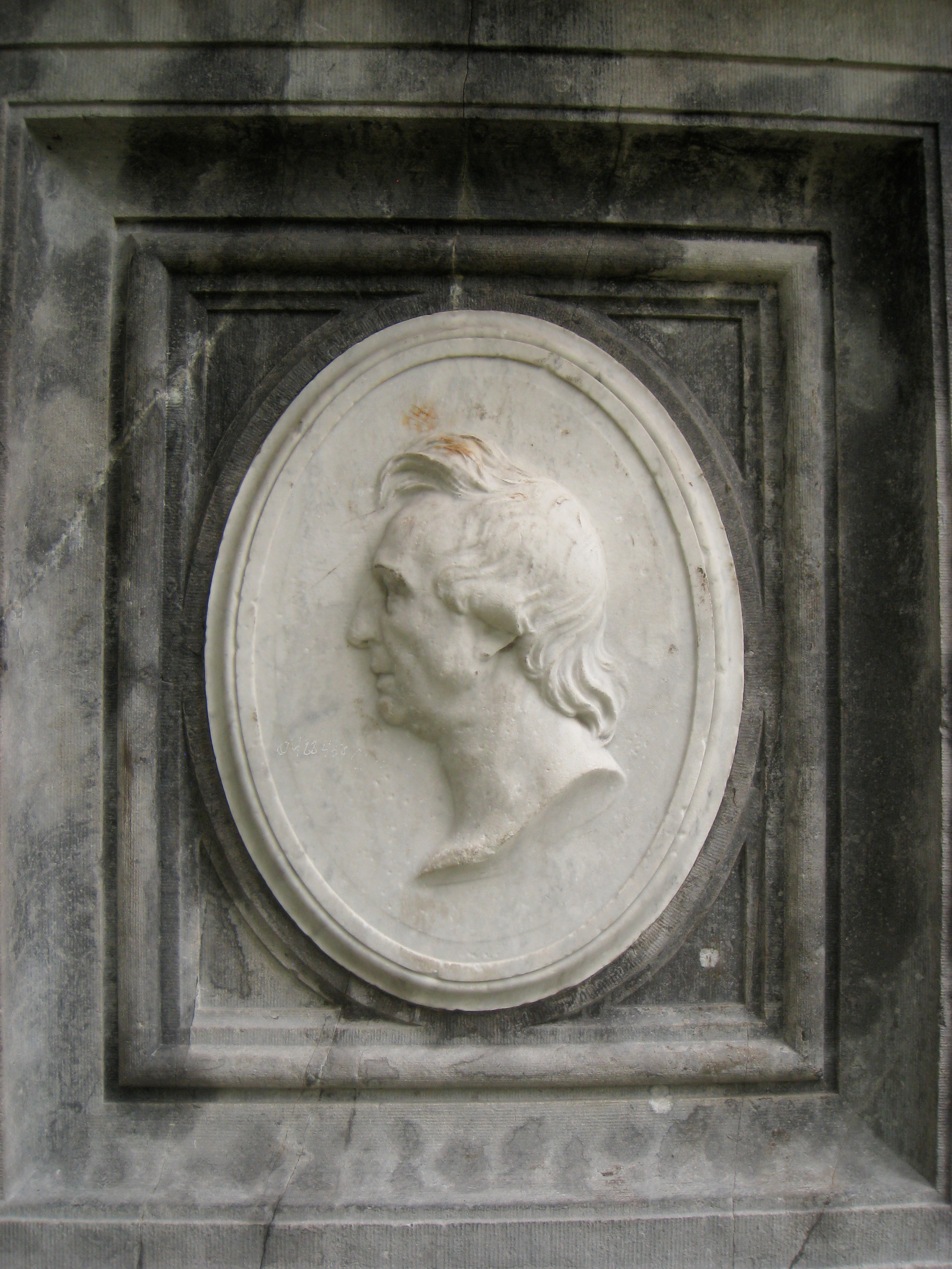 Allegory of Truth, a monument to sculptor G. L. Godecharle by Thomas Vinçotte (1881). Statue in Brussels Park, Brussels, Belgium.